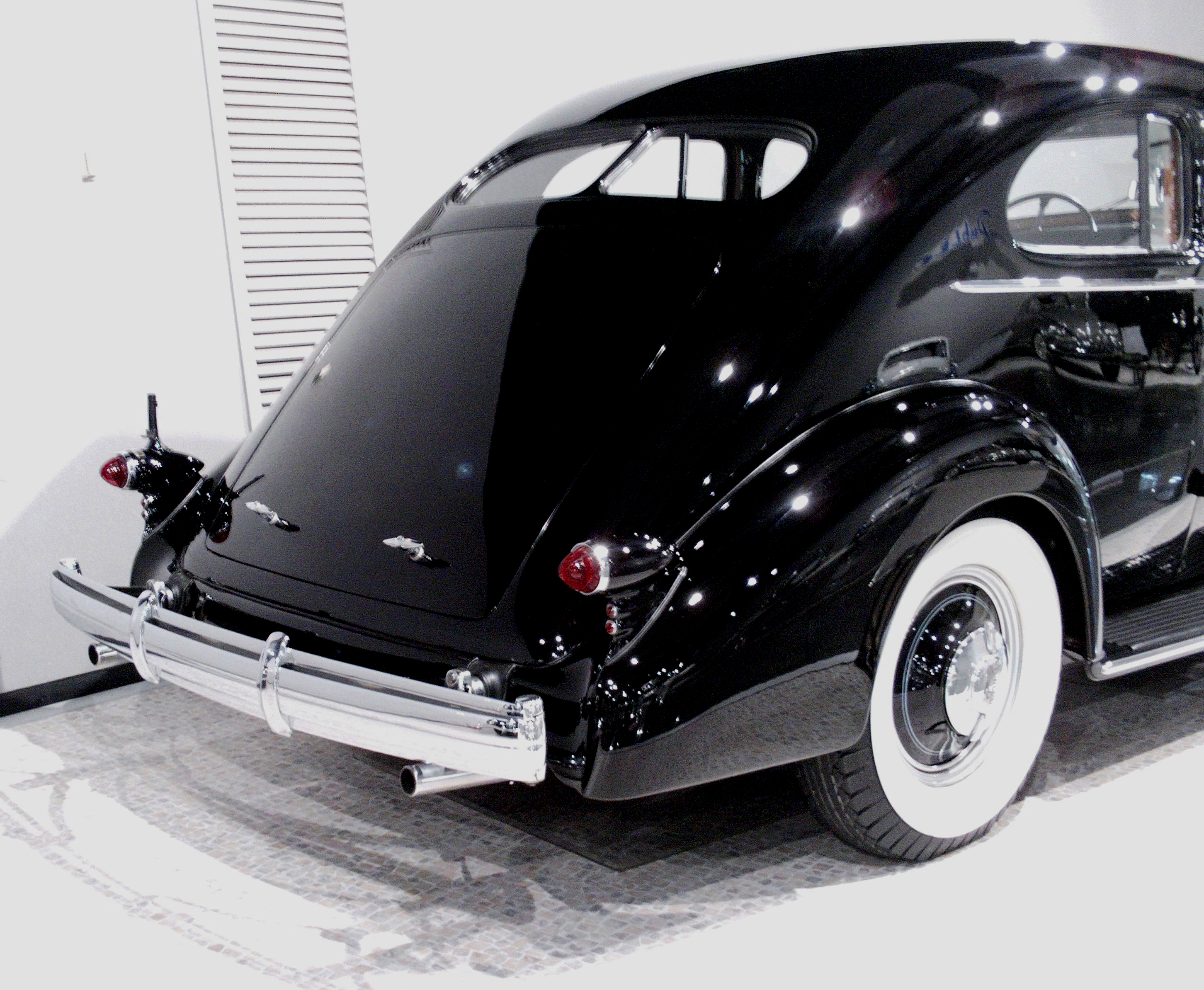 1935 Cadillac V12 Aero Coupe back